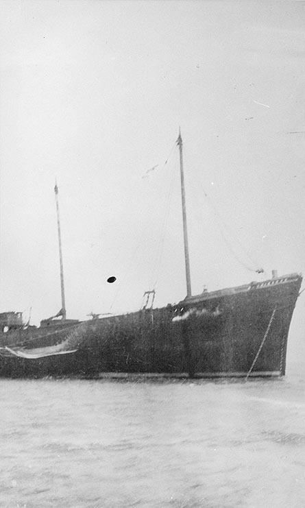 Barge Washington, which served as United States Navy coal barge USS Washington (SP-1241) in 1917